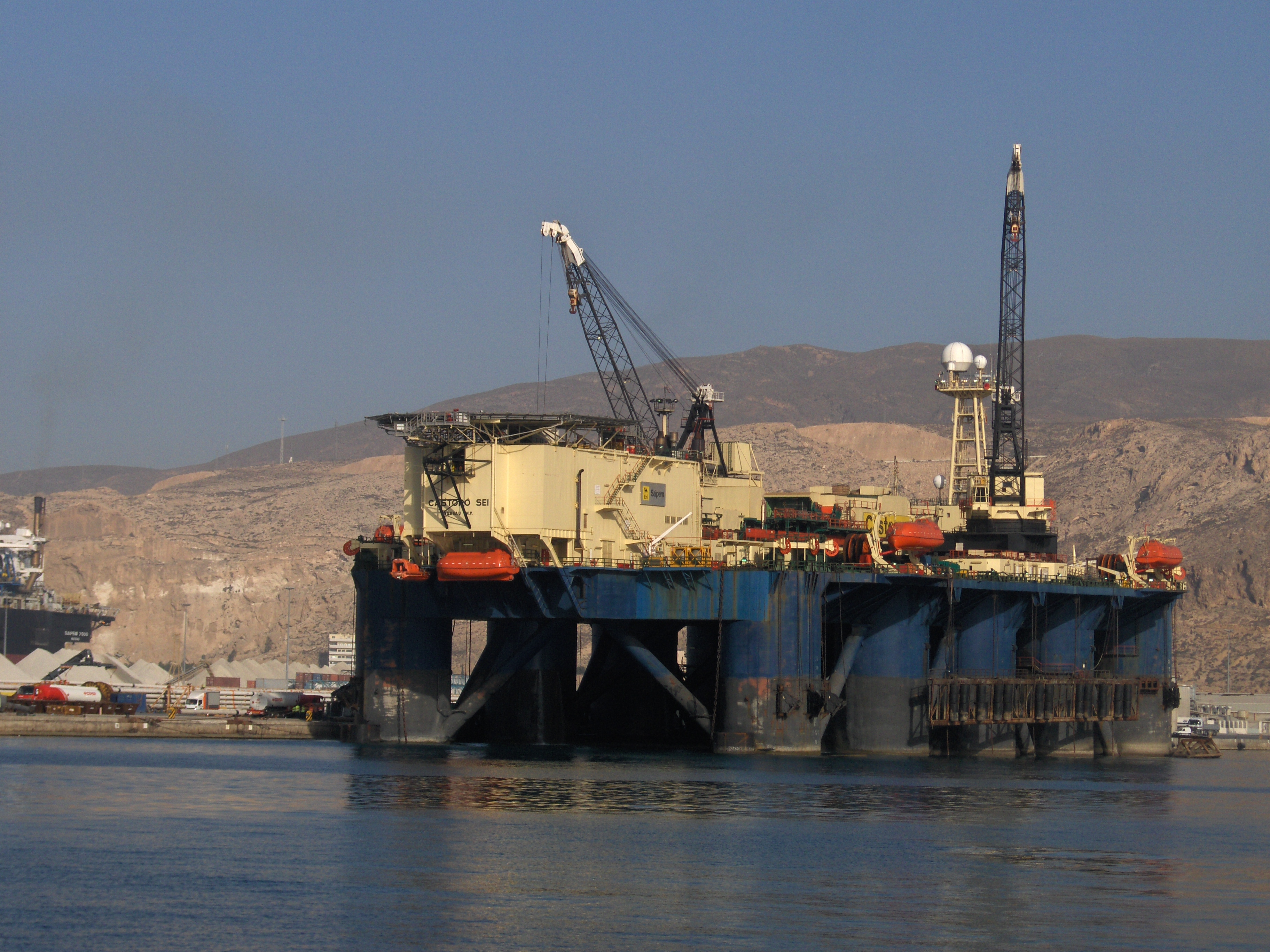 Castoro Sei crane in Almería IMO Number: 8758603 MMSI Number: 308162000 Callsign: C6DF4 Length: 166 m Beam: 70 m